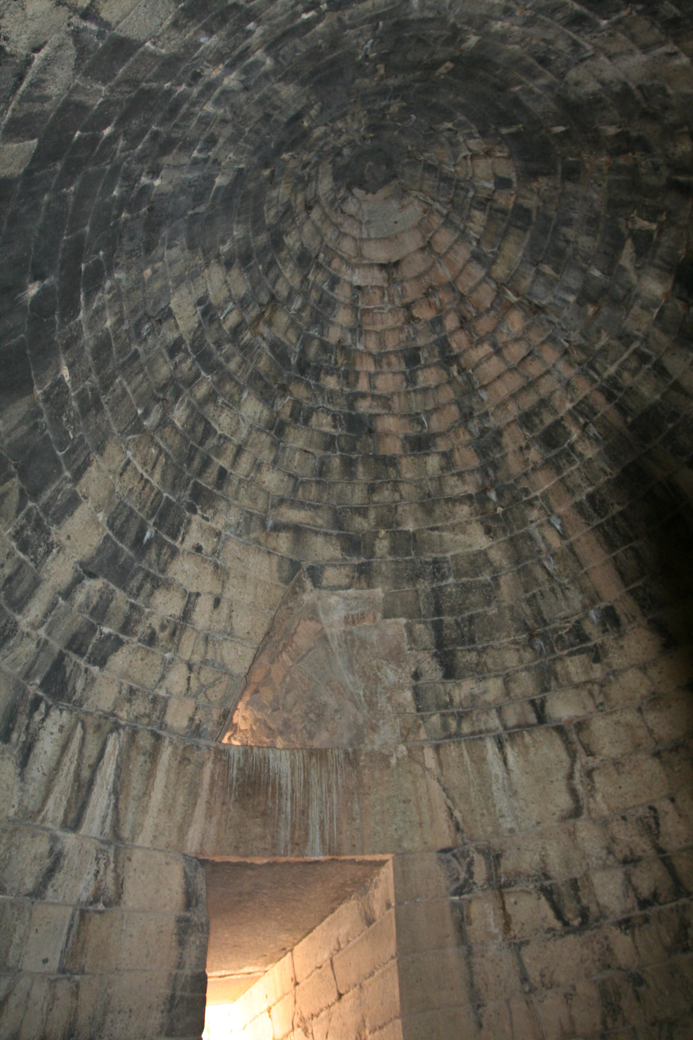 Atreus Tholos Tomb